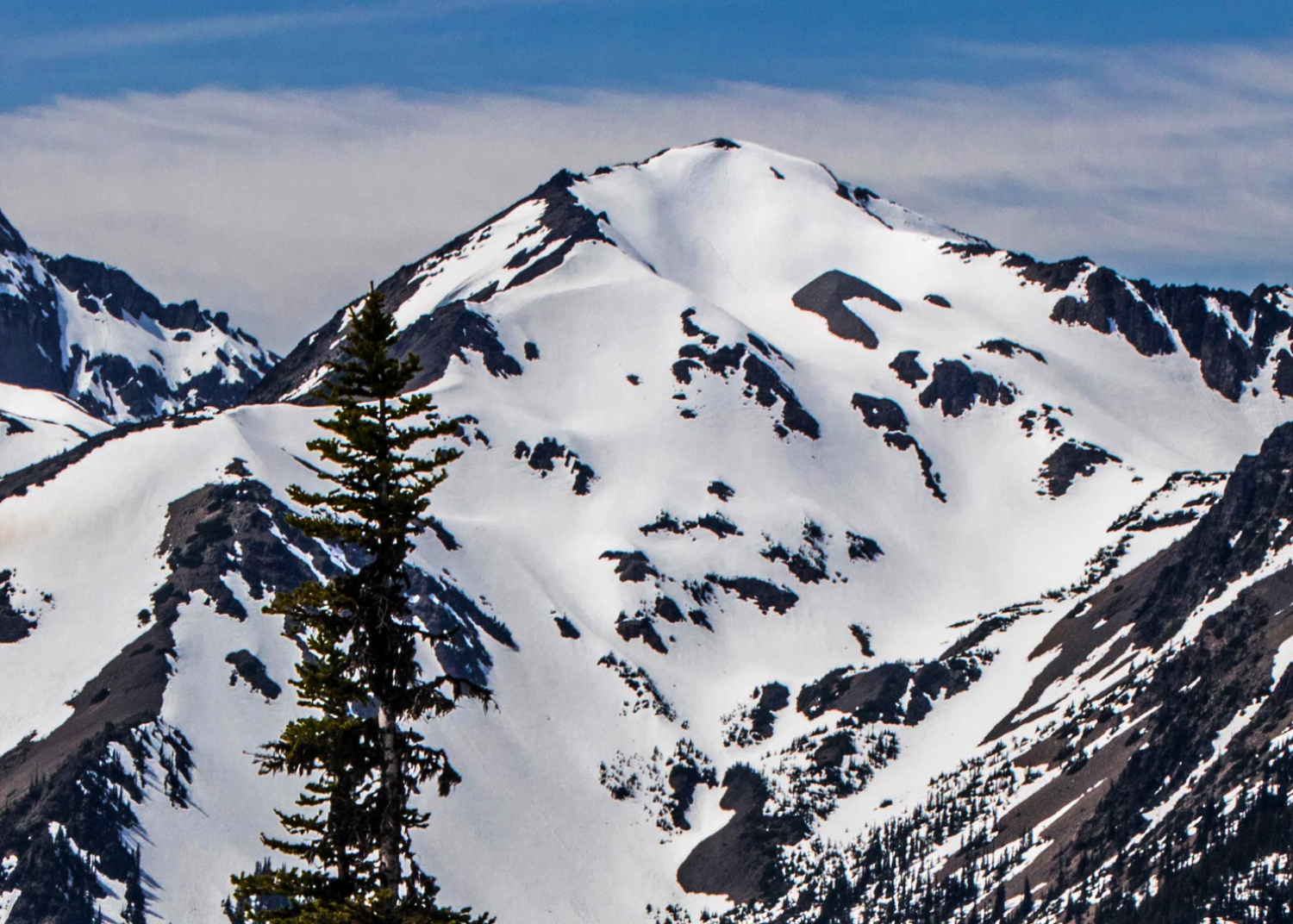 Fricaba covered by snowpack